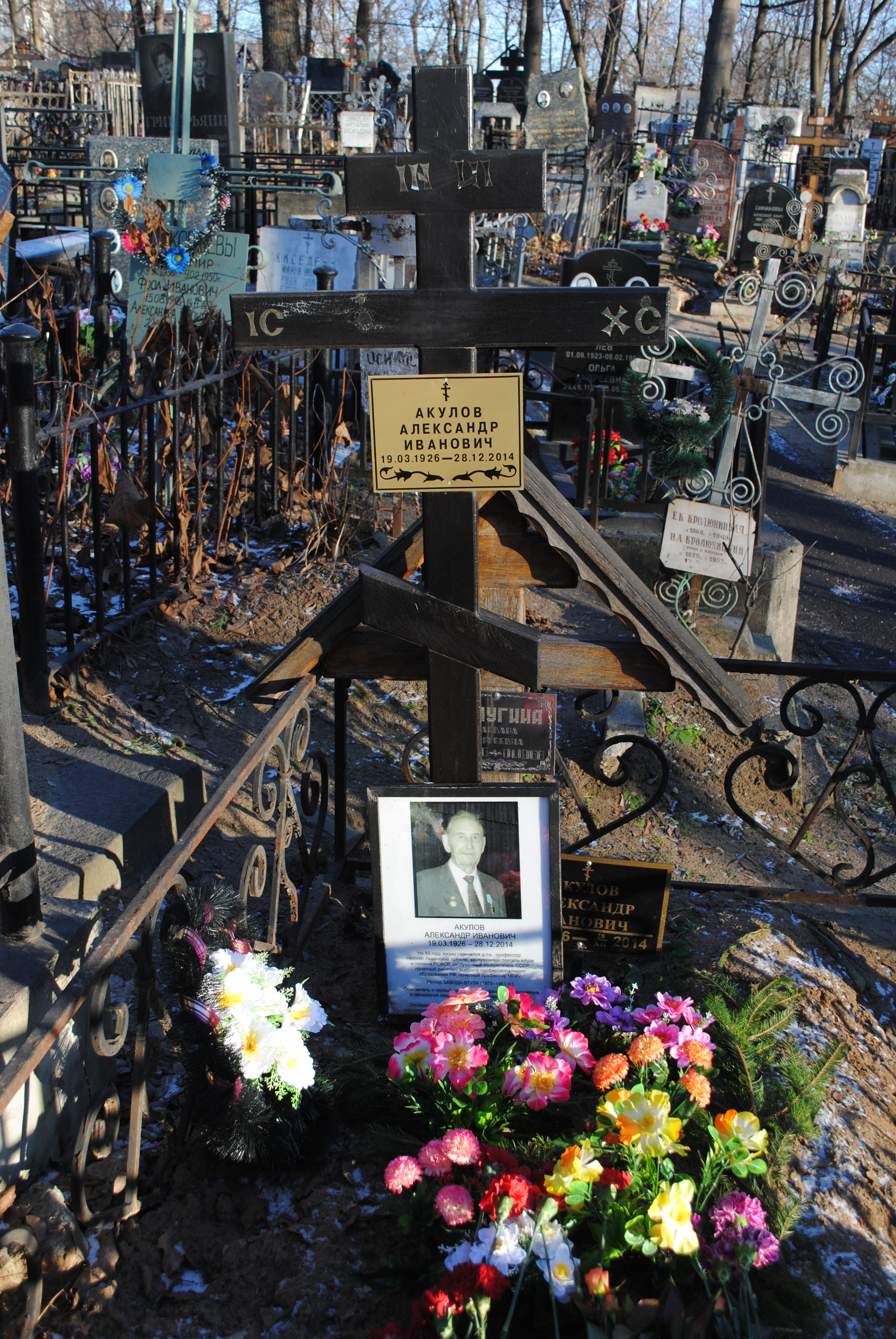 Akulov A.I.